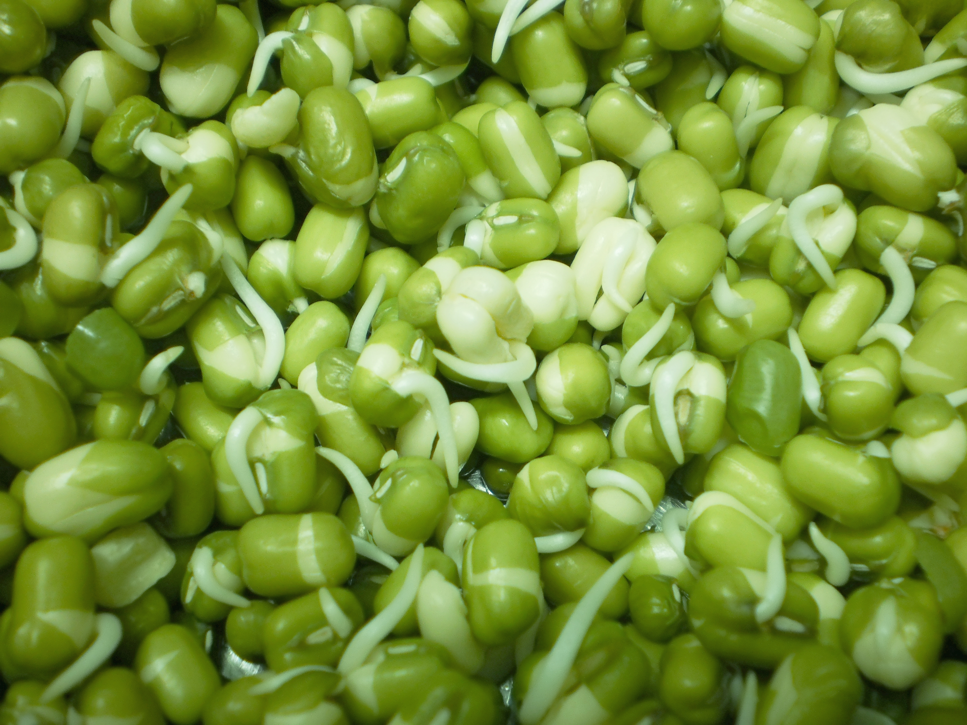 Sprouted Green gram